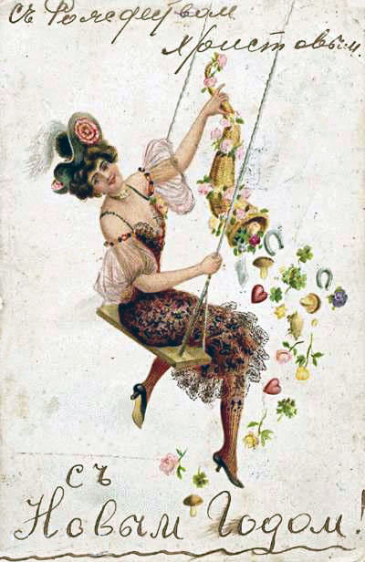 Happy Christmas and New Year! Very rare pre-1917 postcard congratulates both Christmas and New Year. Flickr data on 2011-08-13 Tags: Old picture, postcard, Xmas, Christmas, New Year, Public Domain License: CC BY-SA 2.0 User: paukrus Ruslan